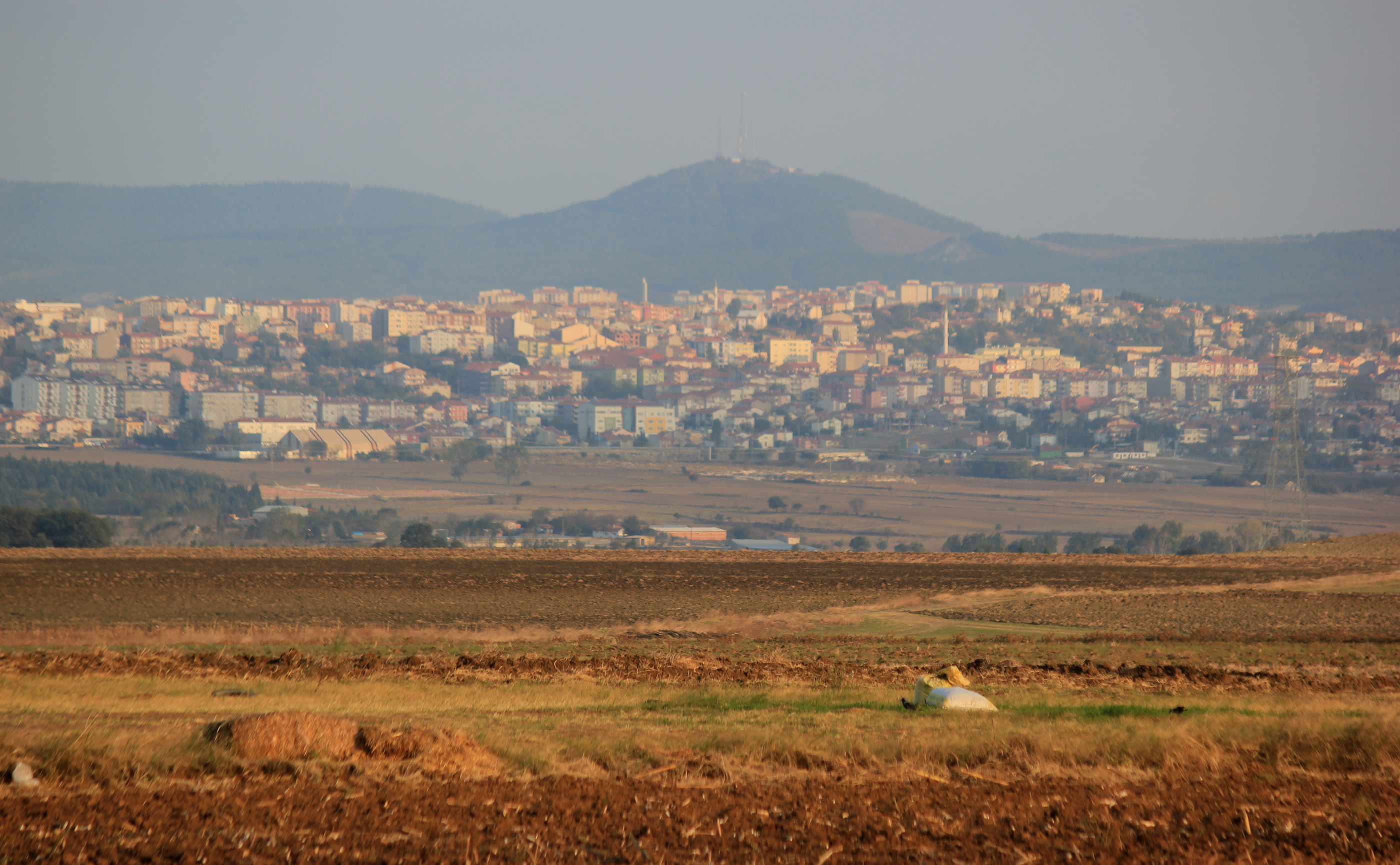 The turkish town of Keşan as seen from the west.